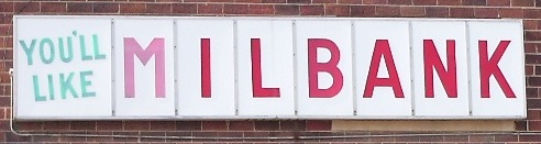 This tourism sign is on the side of a building on Milbank, South Dakota's Main Street, facing U.S. Highway 12. The two leftmost panels are faded.